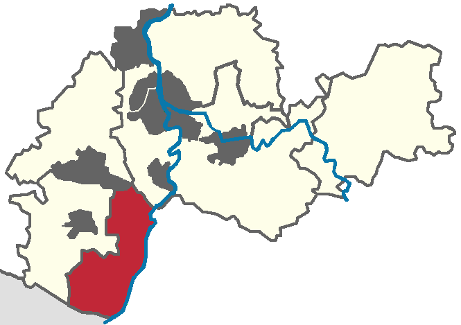 Germersheim in the Rhine Neckar Area (Rhein-Neckar-Dreieck) in Germany